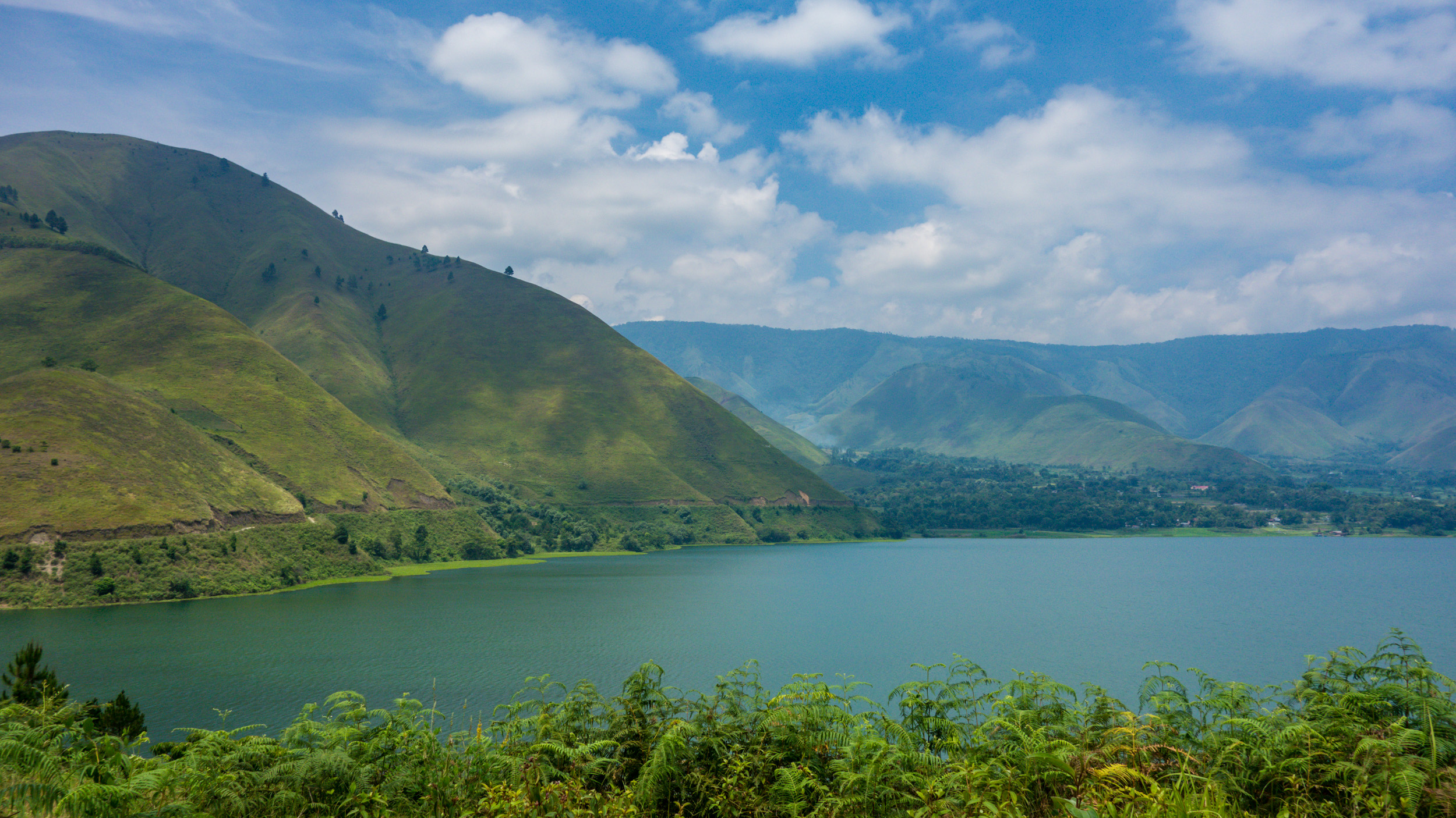 Indonesia - Lake Toba